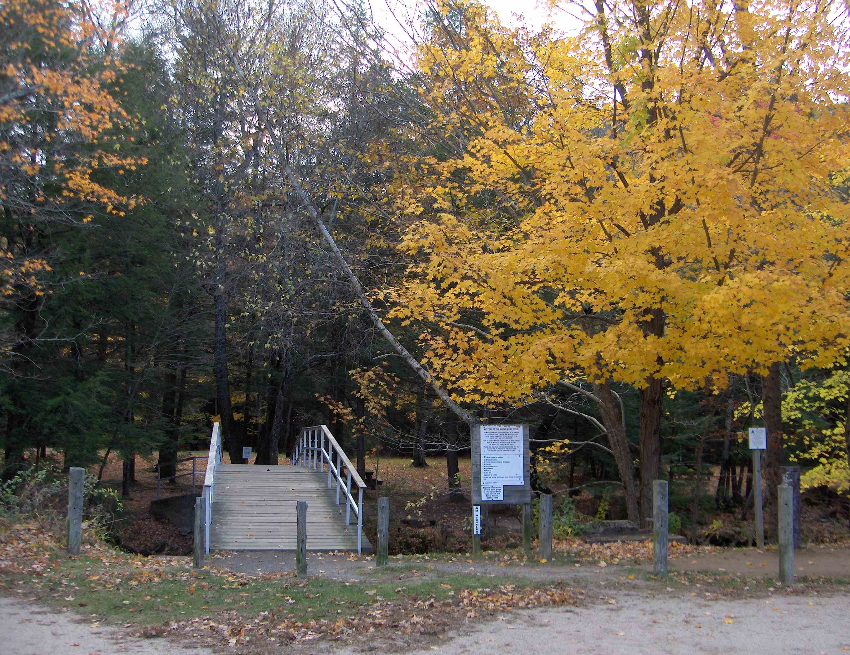 West entrance to the McLean Game Refuge, a 4000 acre nature preserve in Granby, Simsbury and Canton CT USA